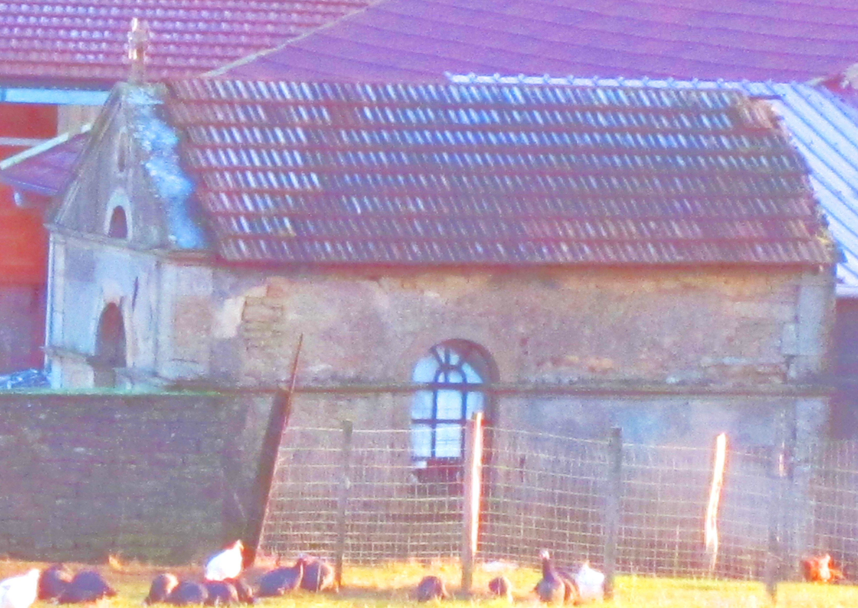 Anoux chapel st saumont